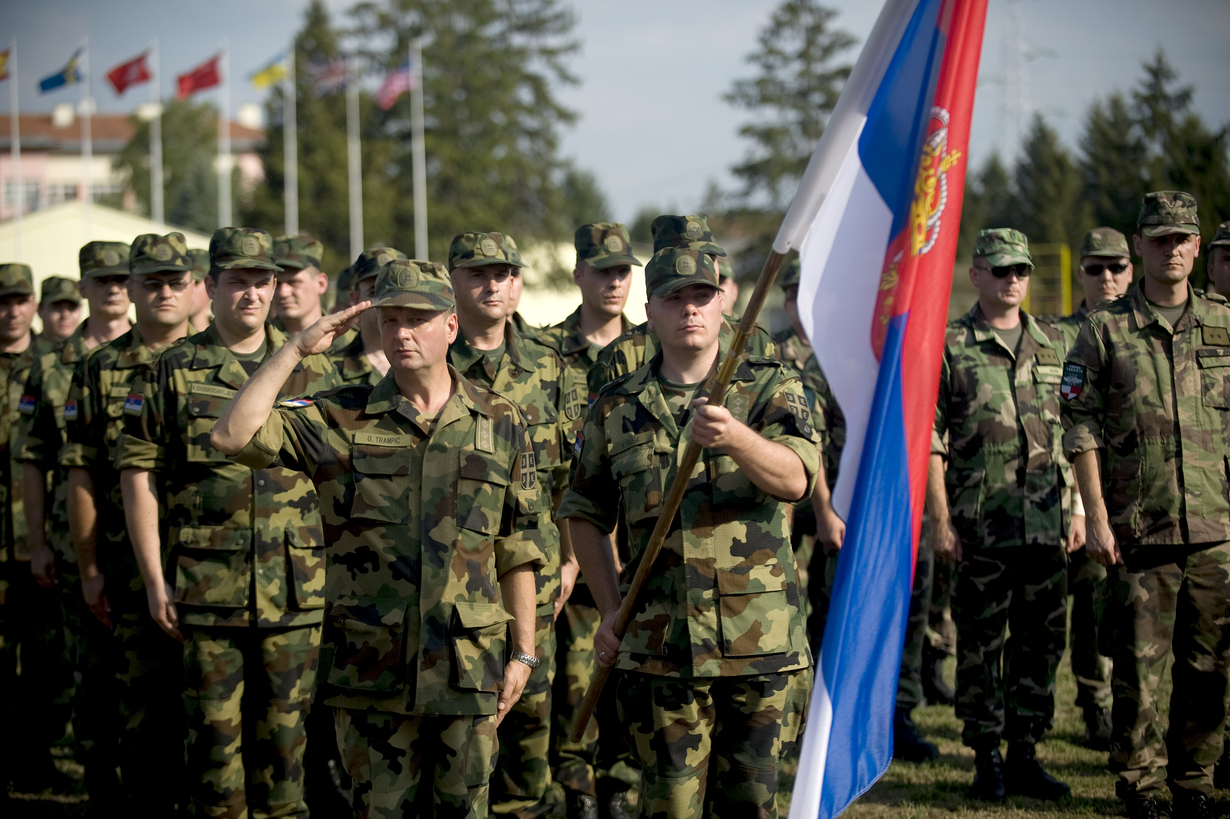 Serbian military members render salutes to the guests of honor Sept. 3, 2009, during the conclusion of the opening ceremonies for Combined Endeavor 2009 at Kozara Barracks, Banja Luka, Bosnia-Herzegovina. Combined Endeavor 2009 is a Headquarters U.S. European Command-sponsored communications and information systems interoperability test between and among Partnership for Peace and NATO nations. (U.S. Air Force photo by Tech. Sgt. William Greer/Released)